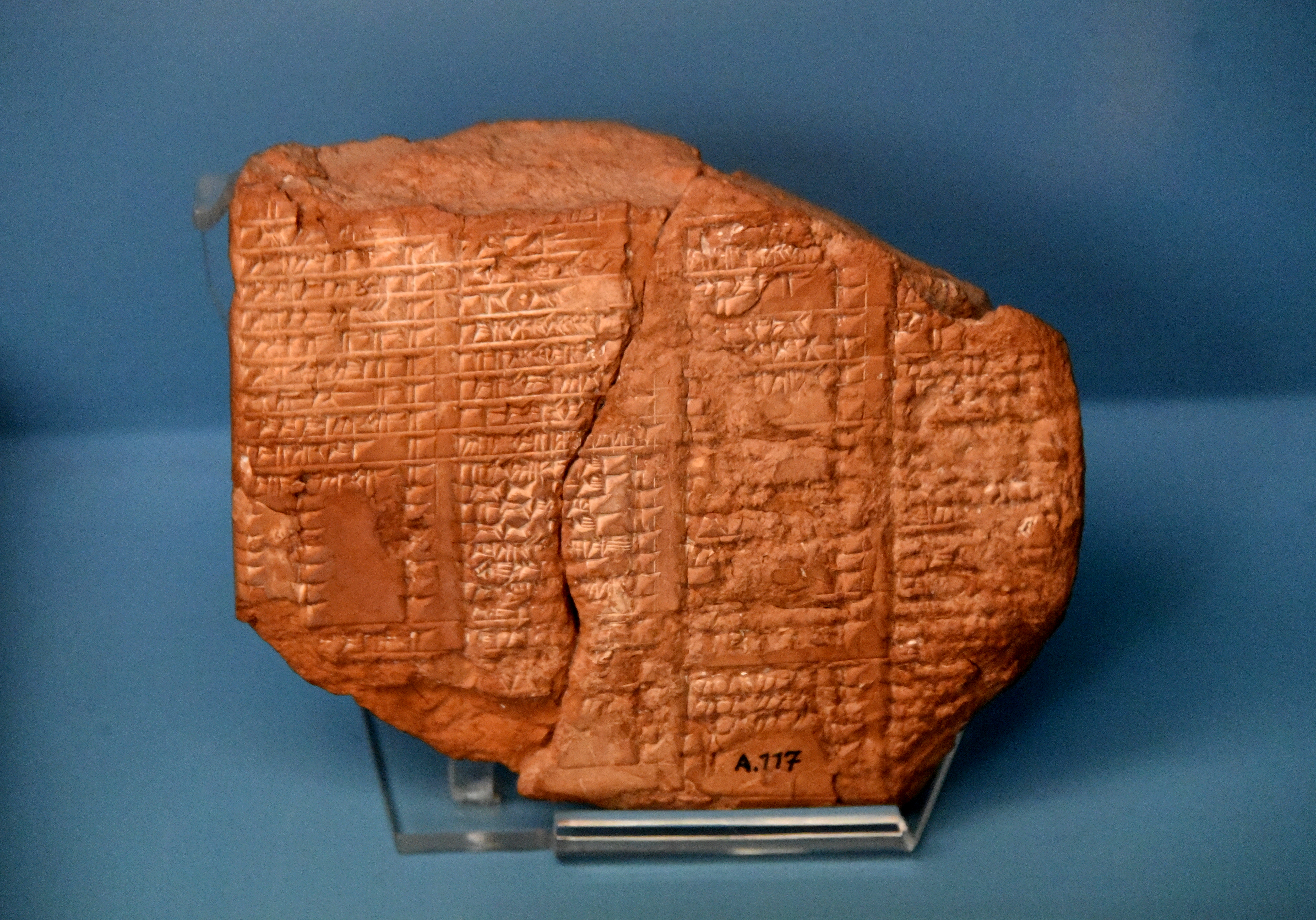 Assyrian king list. Terracotta tablet, from Assur, Northern Mesopotamia, Iraq. Neo-Assyrian Period, 7th century BCE. Ancient Orient Museum, Istanbul